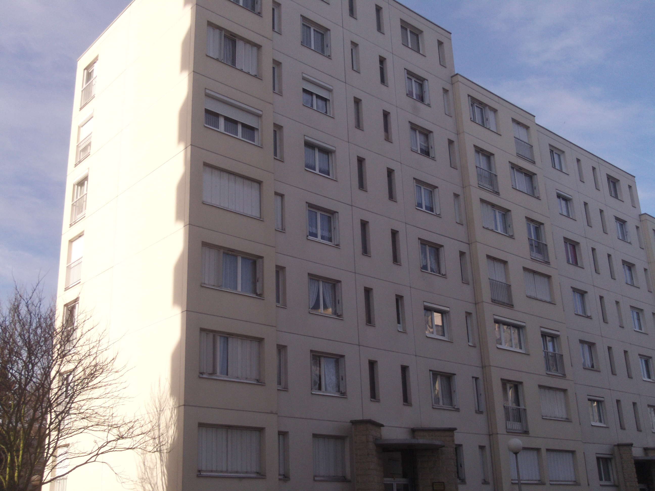 nogent